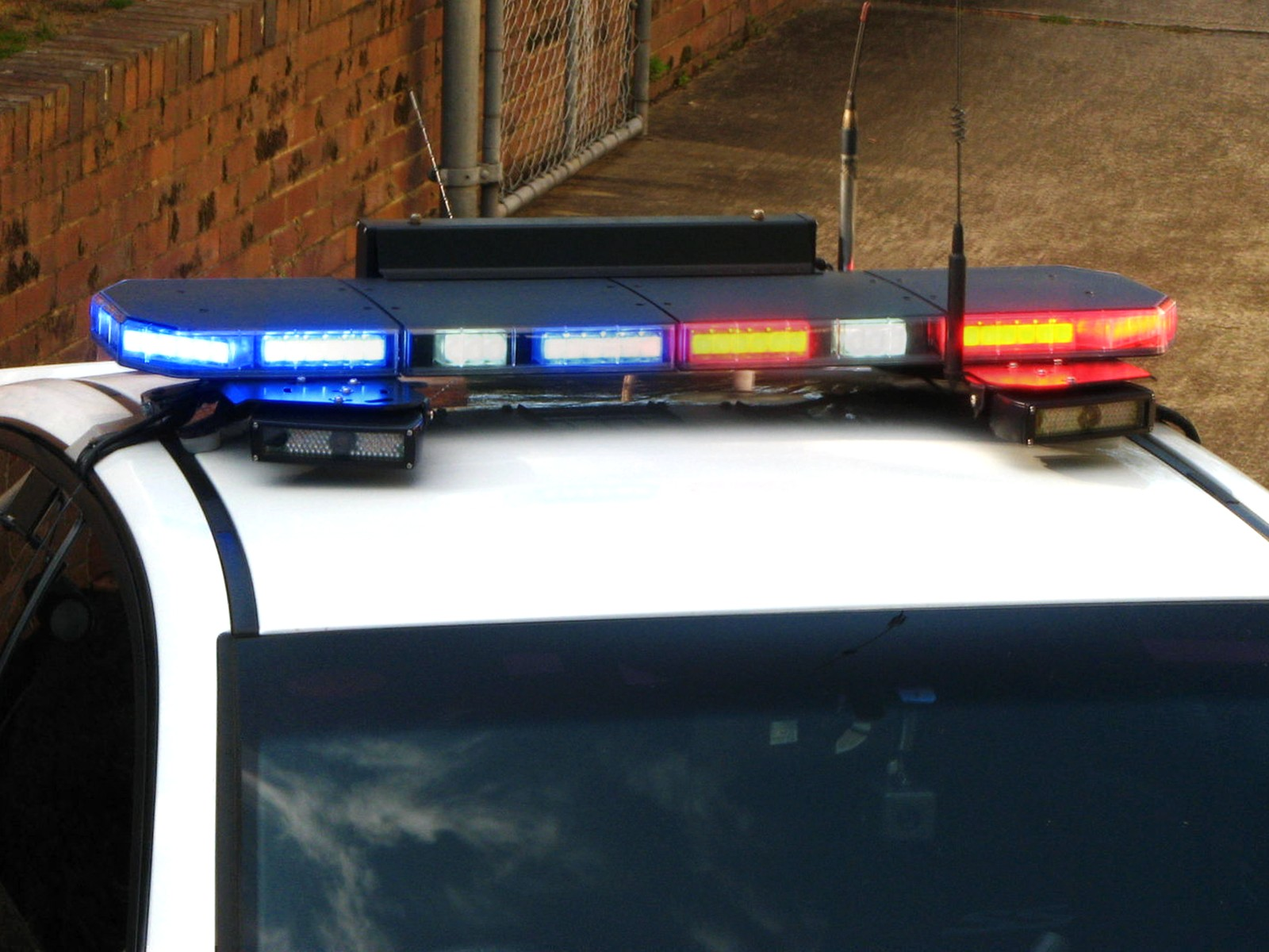 EW 206 full LED lightbar and ANPR camera's